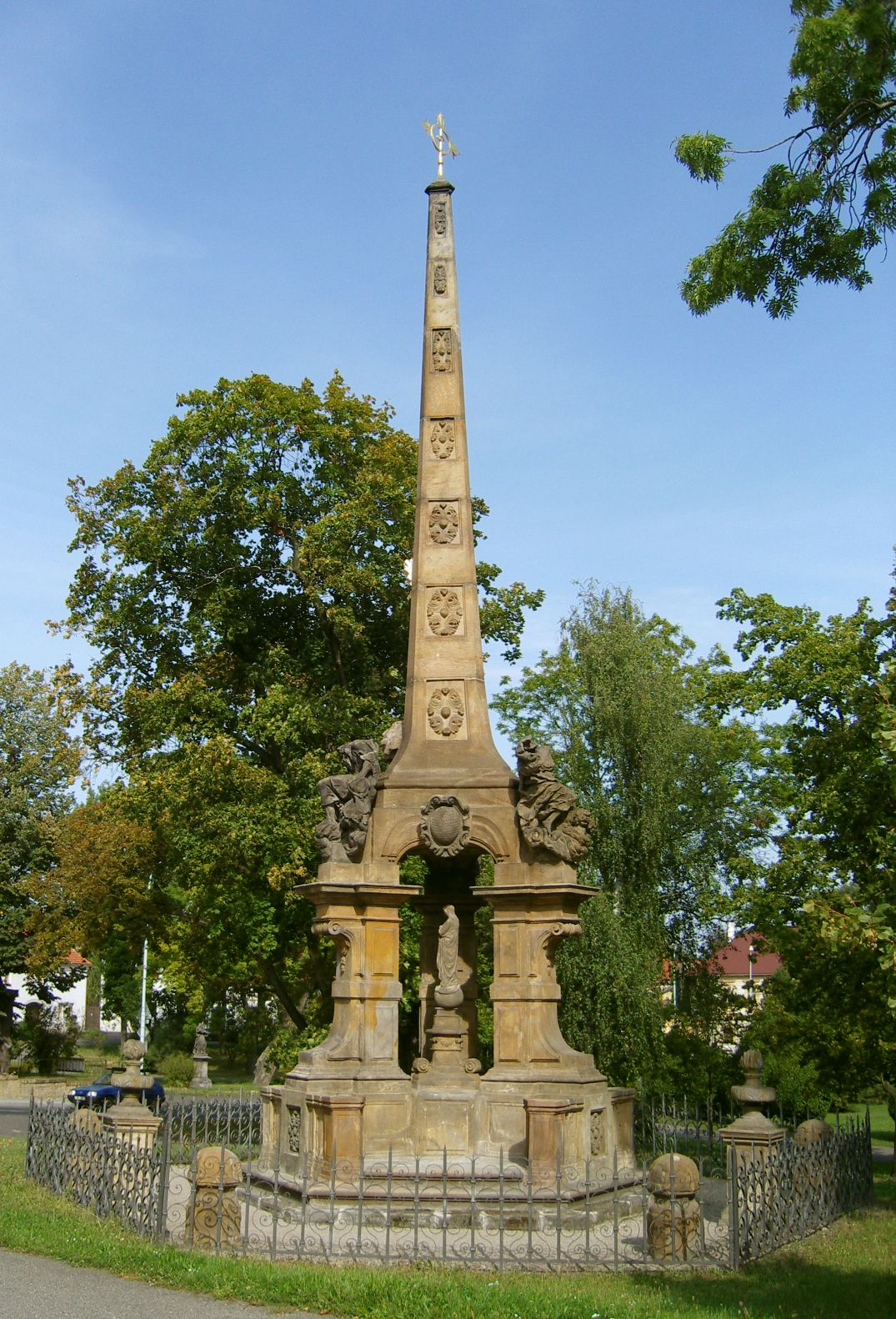 Cítoliby (Czech Republic), column of the Holy Trinity